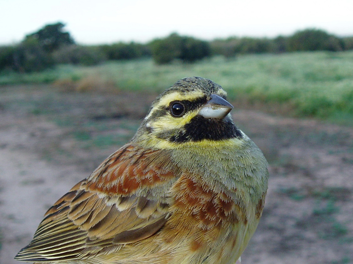 Cirl Bunting Emberiza cirlus